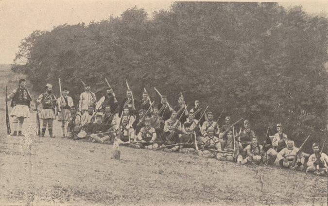 Cheta of bulgarian IMARO revolutionary Andrey Dokurchev from Veles